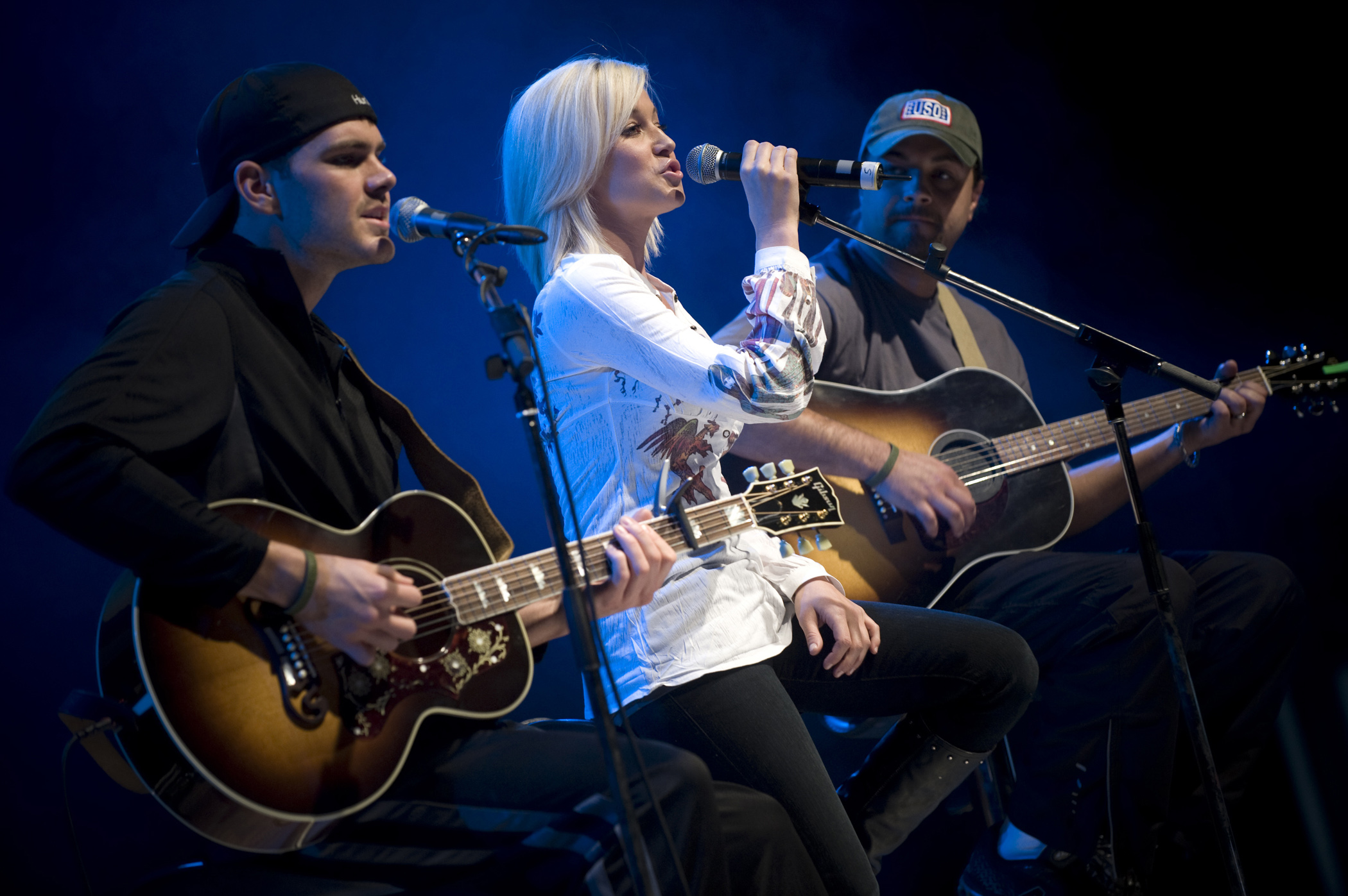 American Idol contestant and country musician Kellie Pickler and members of her band Joshua Henson, right, and Ryan Ochsner, left, perform for U.S. service members during the first stop of the 2008 USO Holiday Tour on Ramstein Air Force Base, Germany, Dec. 16, 2008. The tour’s host, Chairman of the Joint Chiefs of Staff Navy Adm. Mike Mullen, and his wife Deborah joined Kid Rock; comedians John Bowman, Lewis Black and Kathleen Madigan; actress Tichina Arnold and Pickler on the tour to boost the morale of service members stationed overseas during the holiday season.